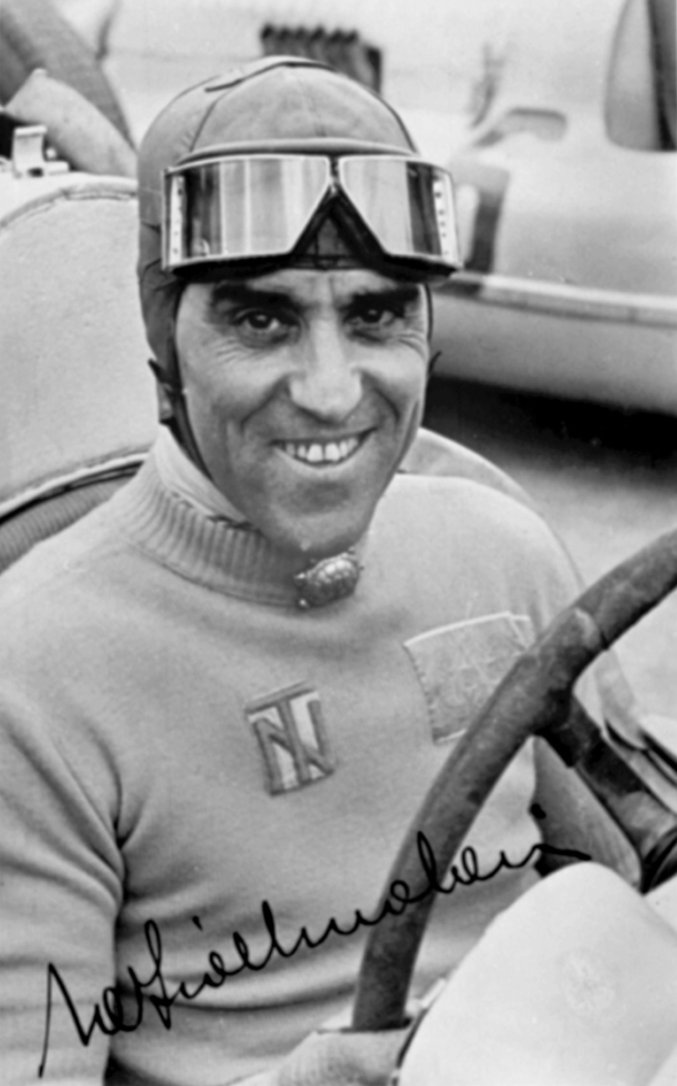 Tazio Nuvolari sitting in one of his racing cars.